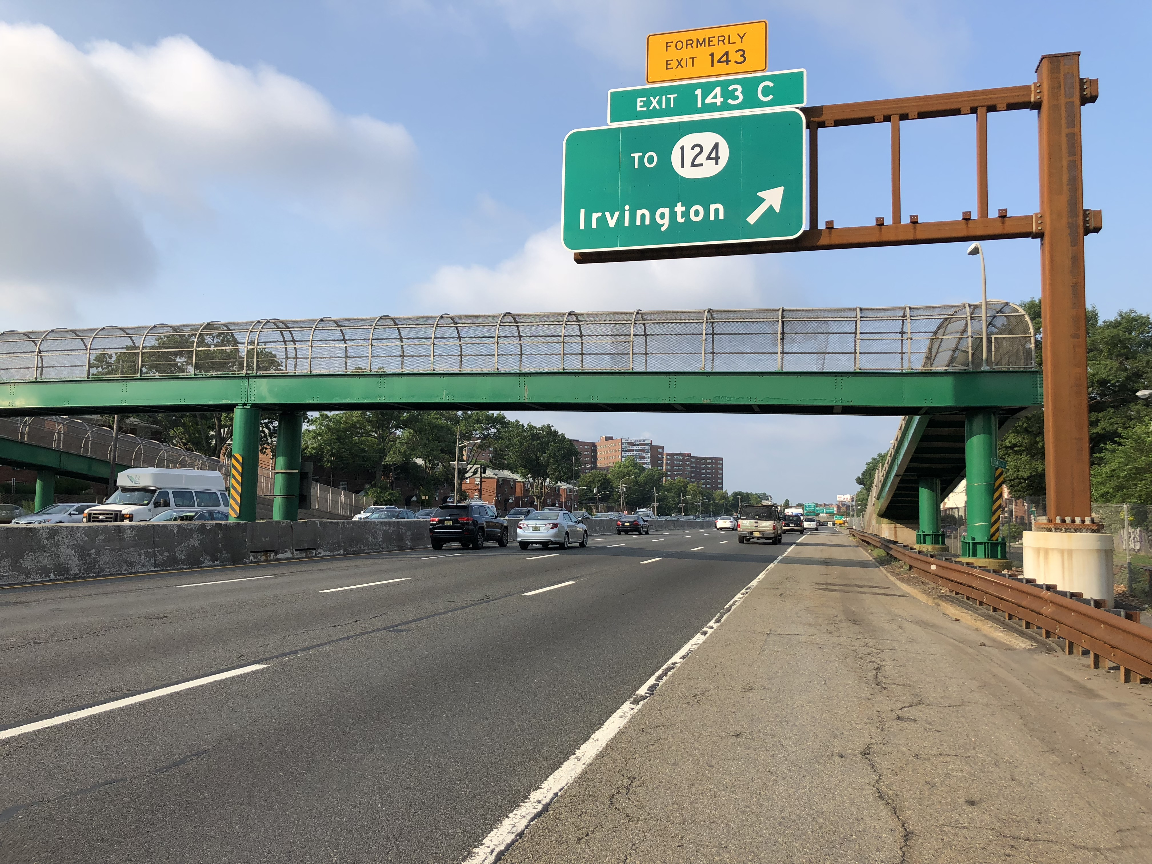 View south along New Jersey State Route 444 (Garden State Parkway) at Exit 143C (To New Jersey State Route 124, Irvington) in Irvington Township, Essex County, New Jersey